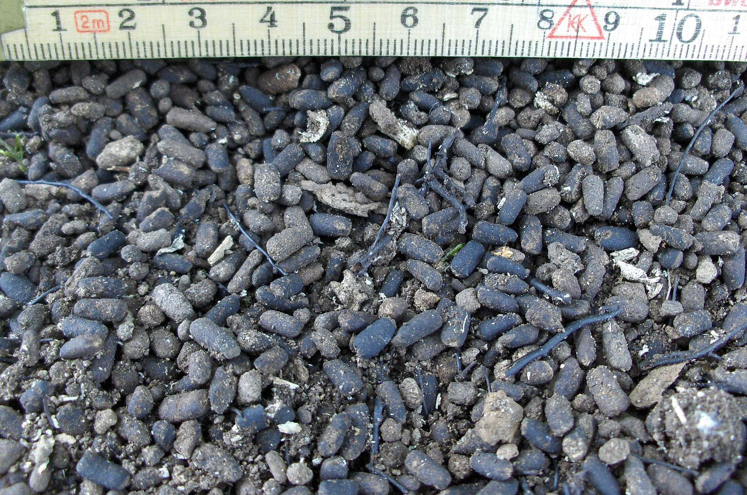 Feces from Osmoderma eremita, outside a hollow tree